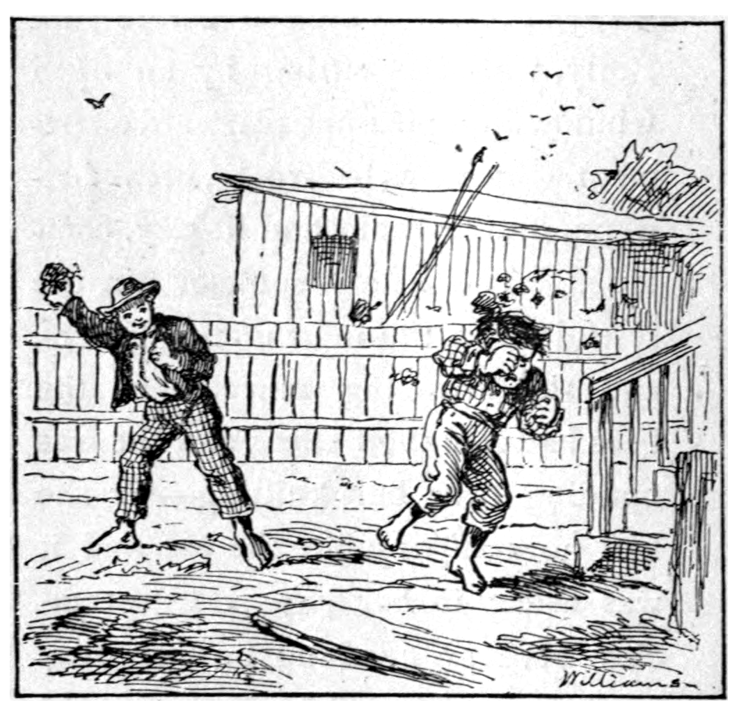 Scan of illustration from the book Adventures of Tom Sawyer, written by Mark Twain & illustrated by True Williams (Trueman W. Williams).